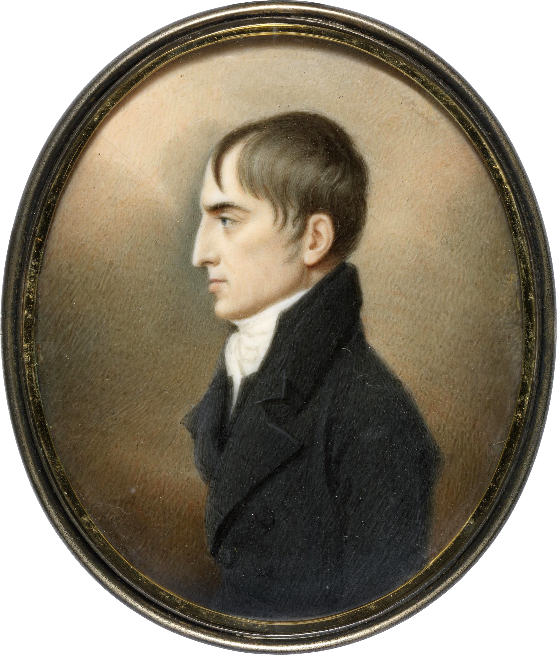 A watercolor on ivory miniature portrait(6.9 x 5.7 cm) by John Comerford of Robert Emmet. It is believed to have be sketched by Comerford during Emmet's trial and is the finest likeness of him made. It was transferred to the National Gallery of Ireland by a descendant of Emmet in 1970.